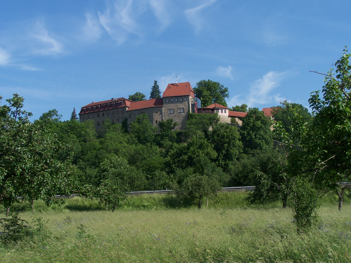 Creuzburg castle from riverside - bellevue.